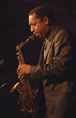 Saxophonist Donald Harrison